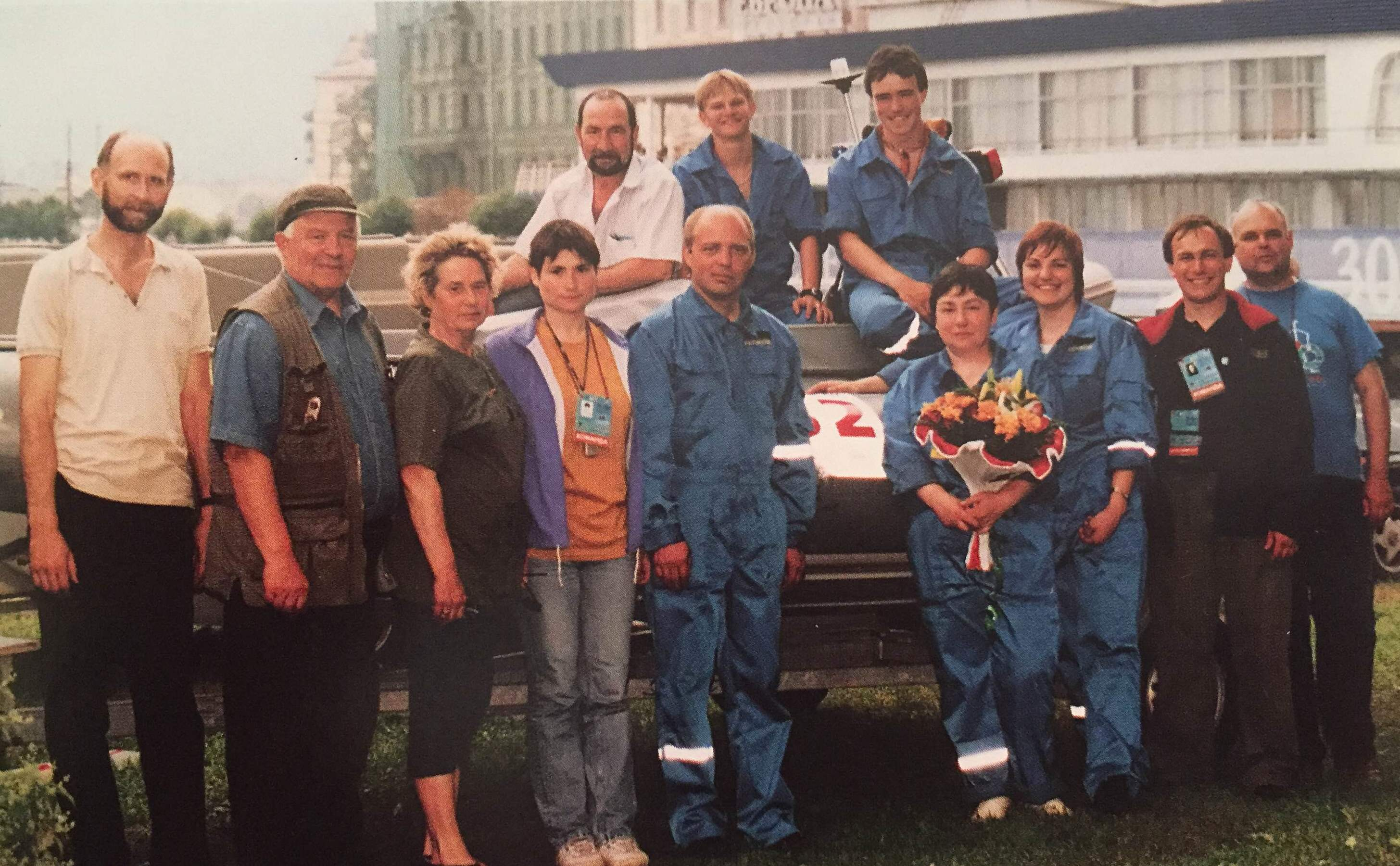 Пылаевы в составе команды "Фаворит", 2003 год.